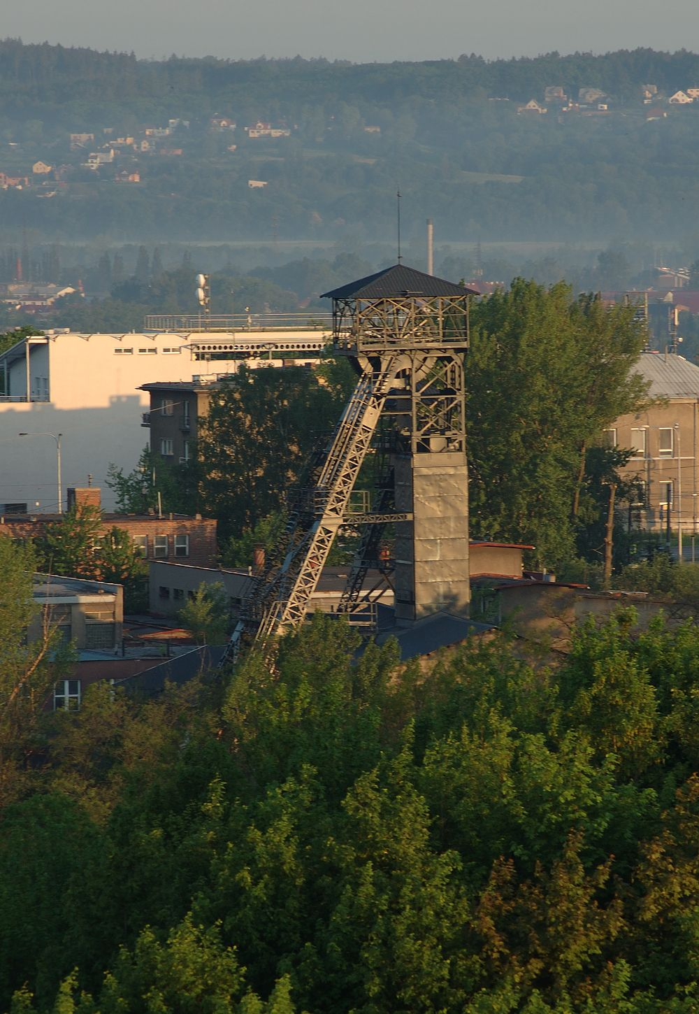 The former underground mine "Petr Bezruč" (Terezie) at Slezská Ostrava, the Czech Republic